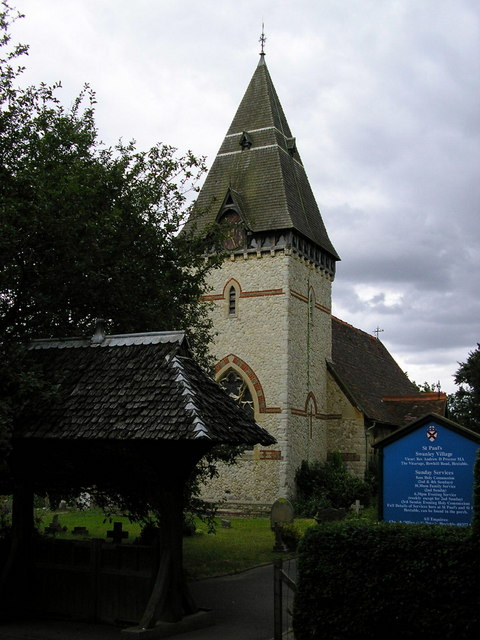 St Paul's parish church, Swanley Village, Kent, seen from the west